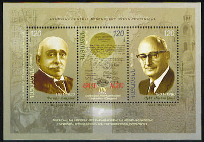 Stamp of Armenia